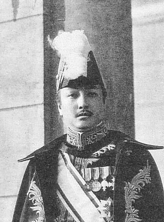 Zhang Yangqing